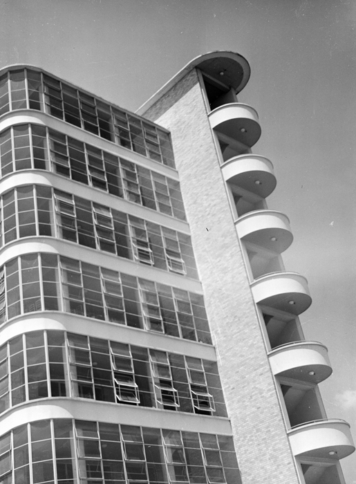 Concord Hospital Sydney in 1948 Stephenson Turner architects Nat Archives